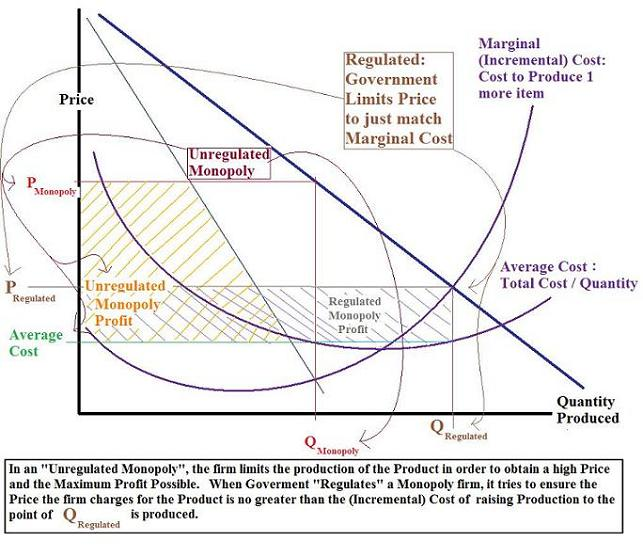 "Government Price Control Impact on Monopoly Market"